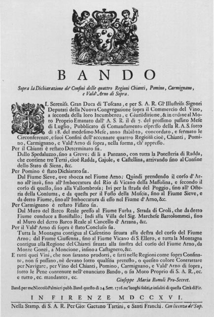 September 24, 1716, in Florence the Grand Duke Cosimo III de 'Medici issues a Notice about the best tuscan wines (Chianti, Pomino, Carmignano, e Val d'Arno di Sopra)